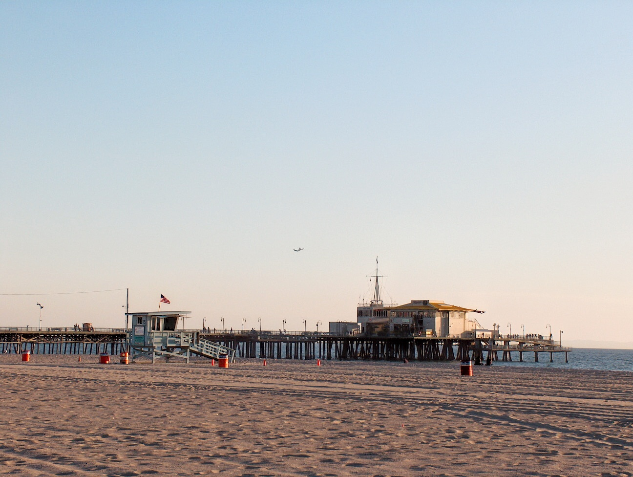 January 2006, the beautiful pier of Santa Monica